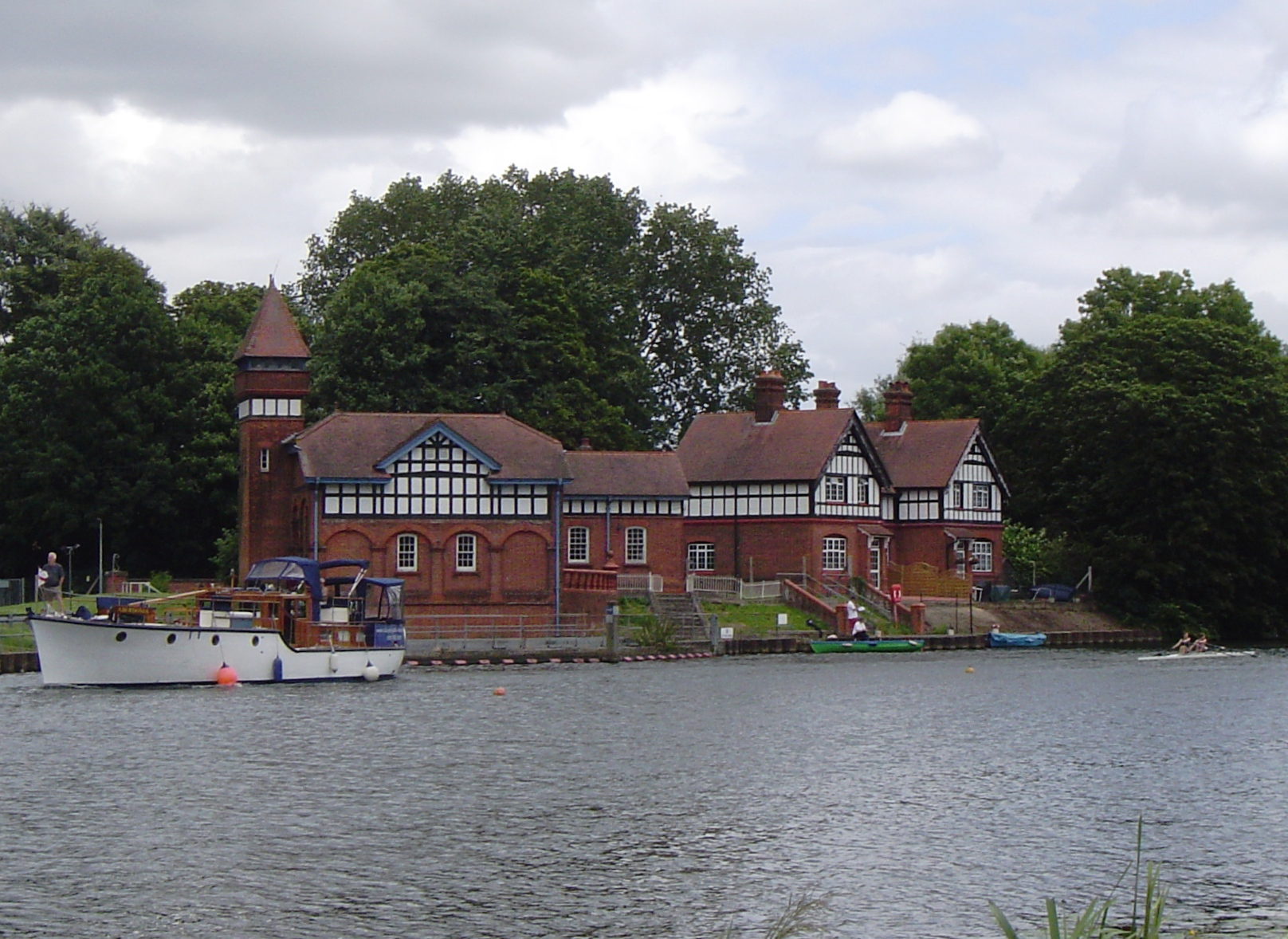 Hythe End Berkshire England Water Works Buildings